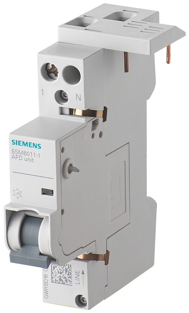 AFDD Unit for Combination